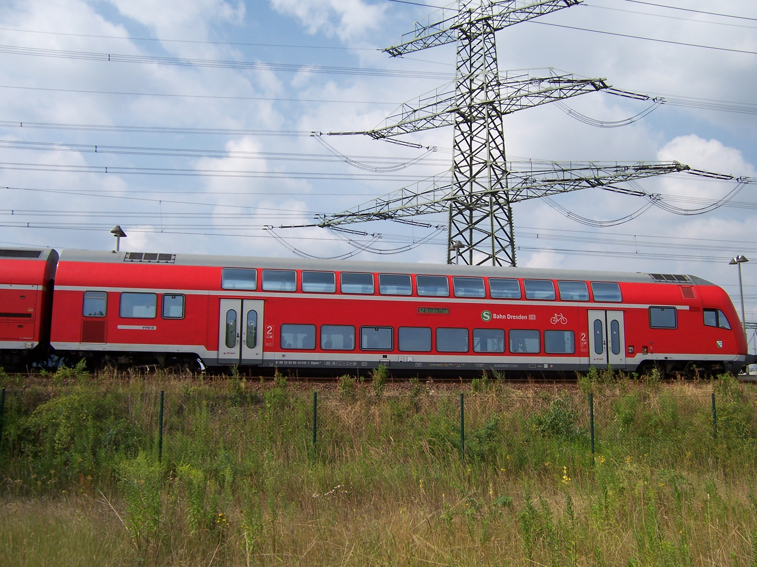 Control Car DBpbzfa766 of the “S-Bahn Dresden”. Line S2 to Dresden Int. Airport at Station Dresden-Zschachwitz